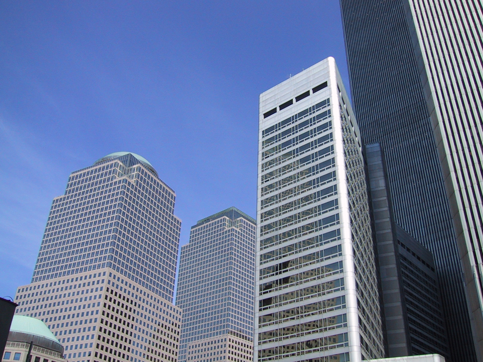 From left to right: 2 World Financial Center, 3 World Financial Center, Marriott World Trade Center (3 World Trade Center), 1 World Trade Center (North Tower), 2 World Trade Center (South Tower). 2 September 2001.